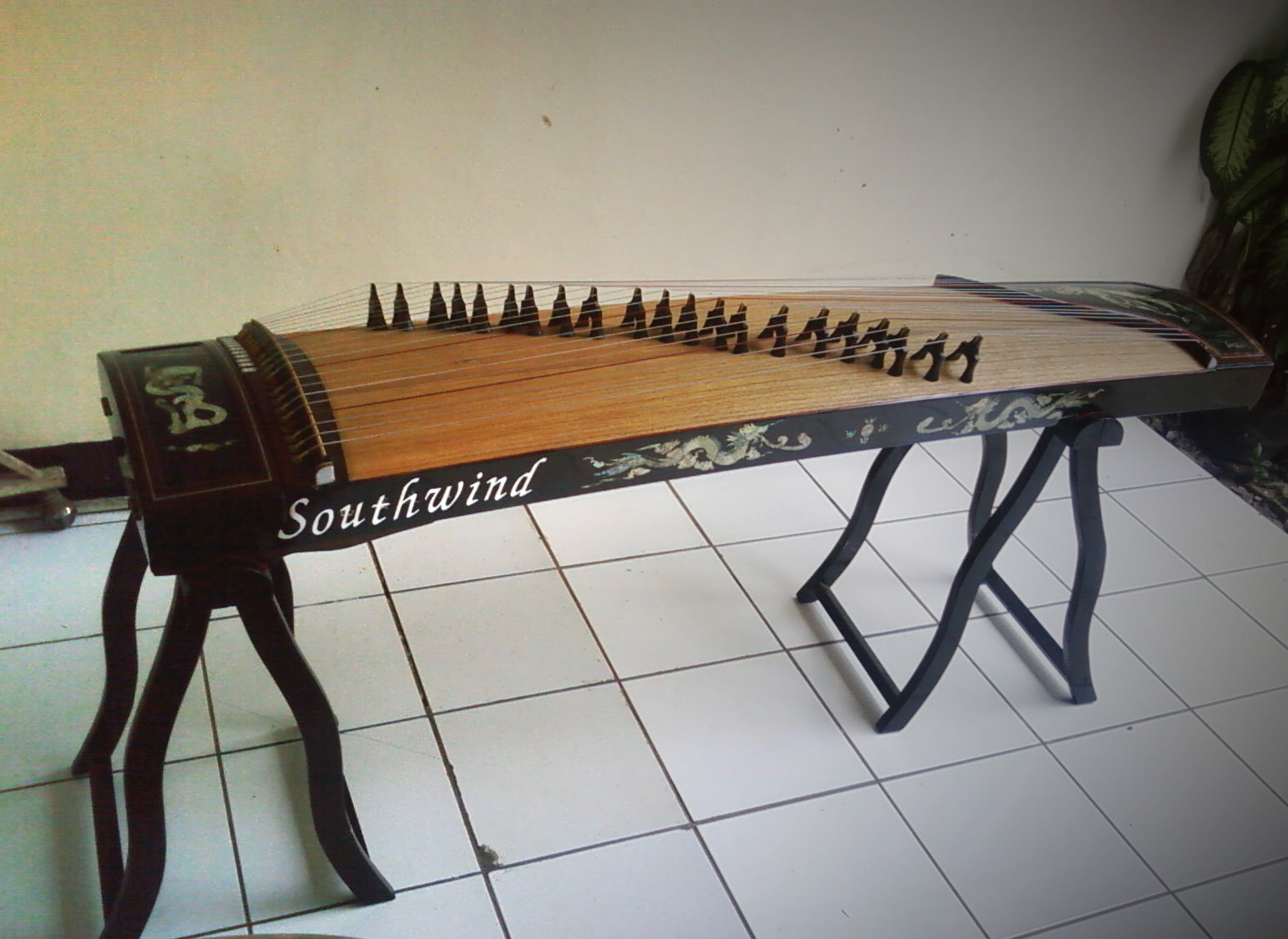 Chinese music instrument